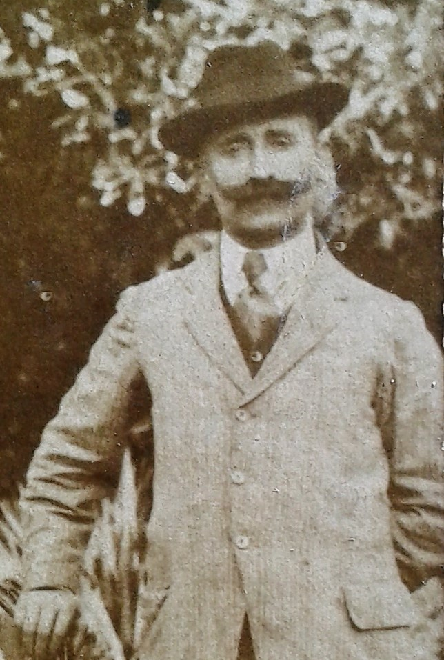 Portrait of noble Luigi Sessa.